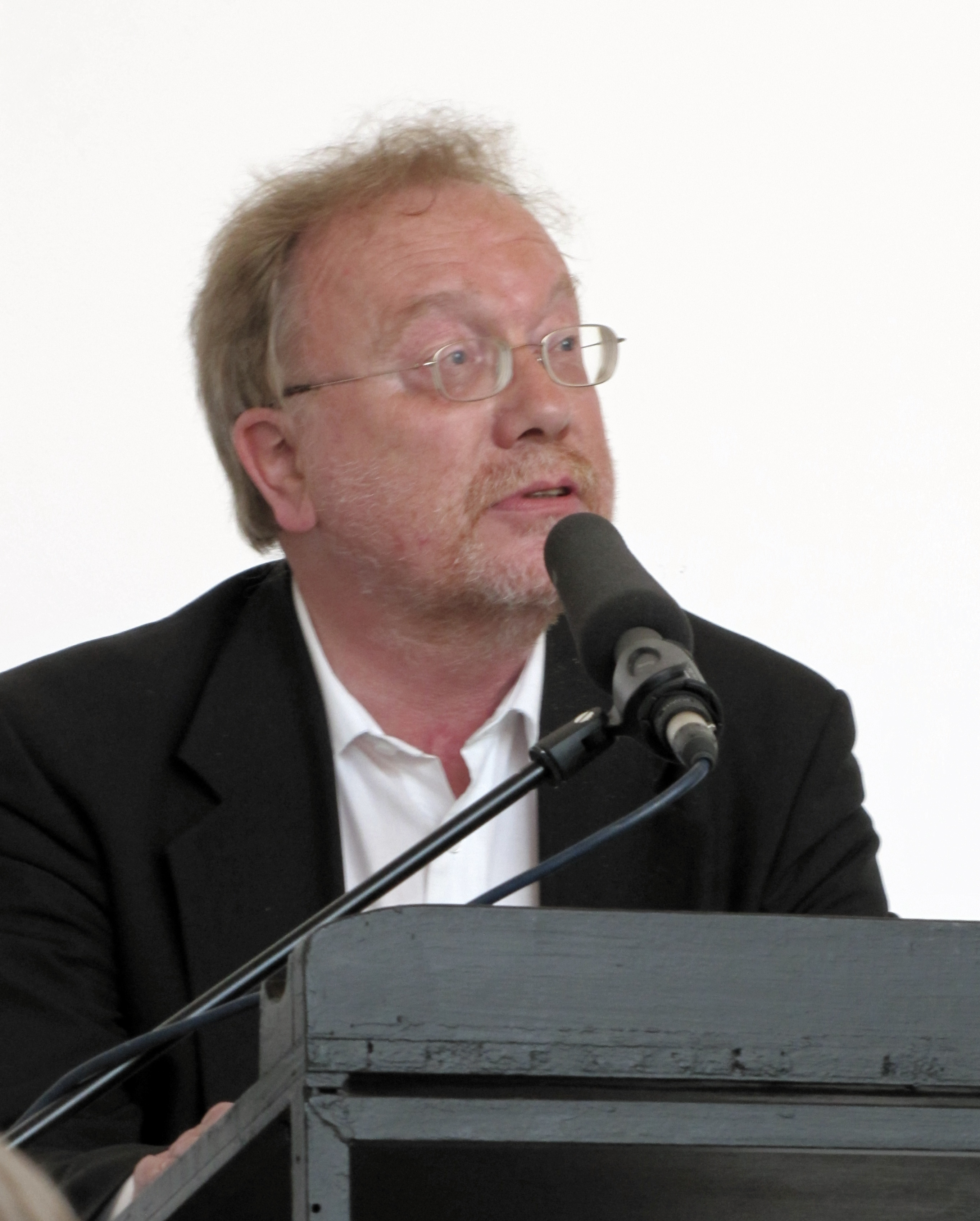 Wolfgang Bonss, German professor of sociology at Bundeswehr University Munich, 2011 at "Roemerberggespraeche" (panel discussion) in Frankfurt am Main, Germany.